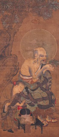 Rakan, Daianji, Fukui, Fukui, Japan